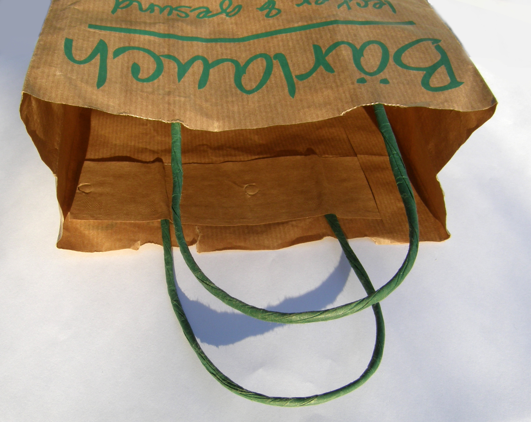 papercord